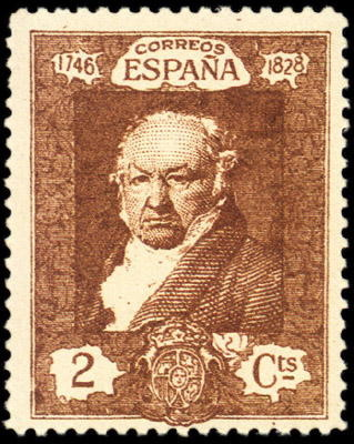 Postage stamp of Spain, Francisco de Goya, 1930, 2 cts.